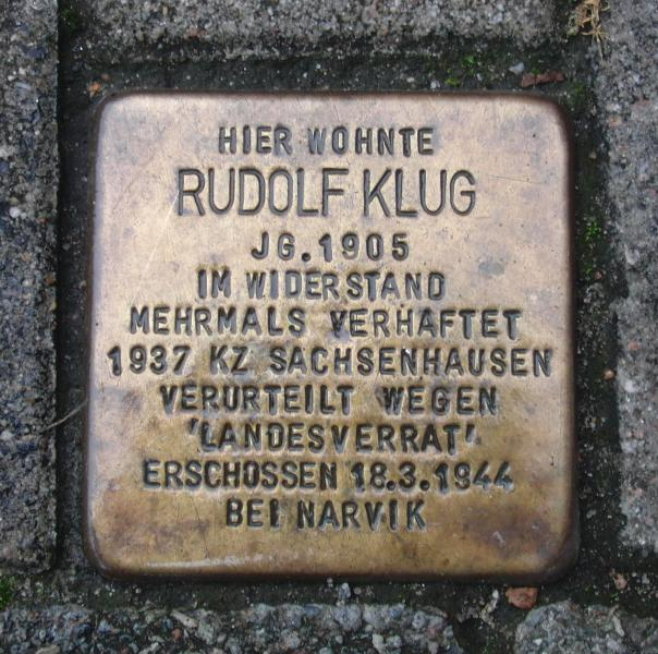 Rudolf Klug